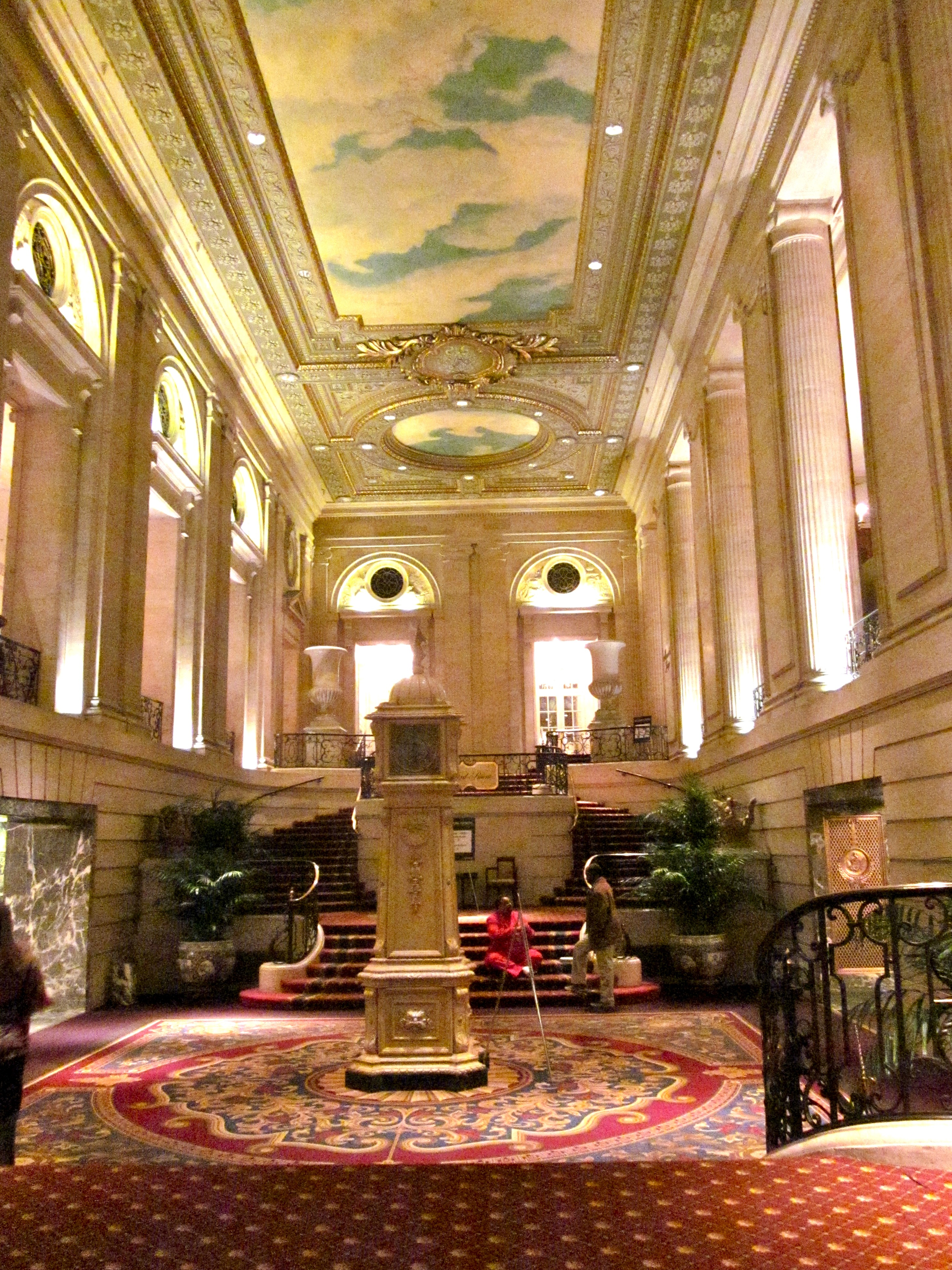 Hilton Chicago